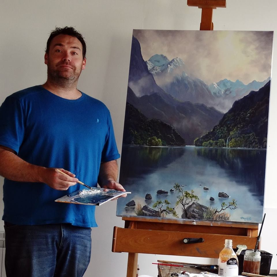 Picture of Caley Hall painting a landscape photo of Fiordland at his home studio in Invercargill.